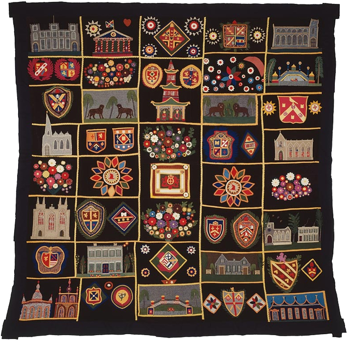 Bedcover Entitled "Buildings, Animals and Shields", c. 1890 Cotton, plain weave with supplementary patterning wefts forming cut solid velvet; pieced; appliquéd with cotton, wool and silk, plain, twill, and satin weaves, some with supplementary pile warps or wefts forming cut solid or uncut voided pile, some with supplementary patterning warps, some with complementary warps or wefts, and some printed; embroidered with silk in single satin stitches; couching 256.2 x 255.7 cm (100 7/8 x 100 1/2 in.)